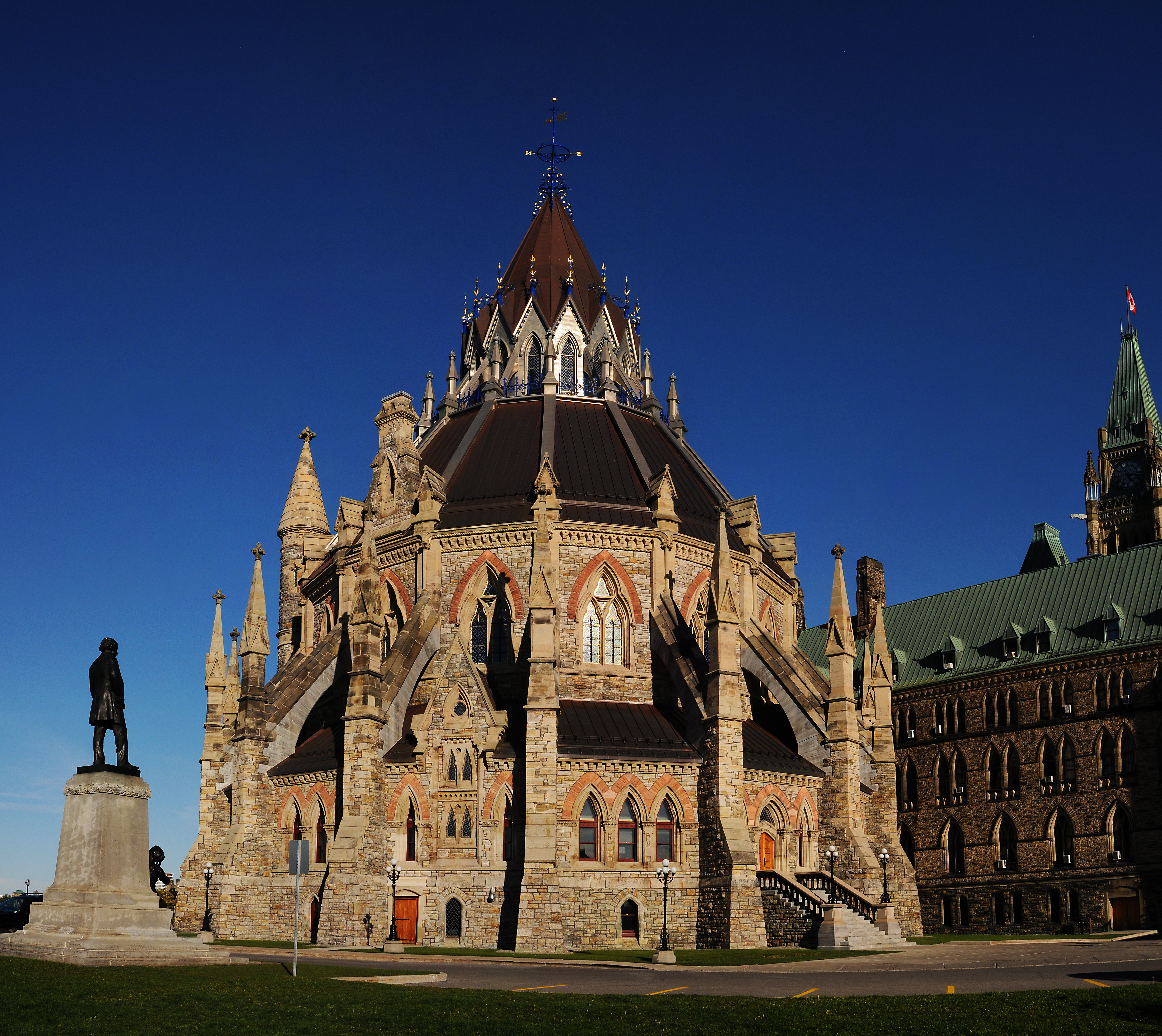 Canadian Parliament Hill Library, Ottawa, Canada